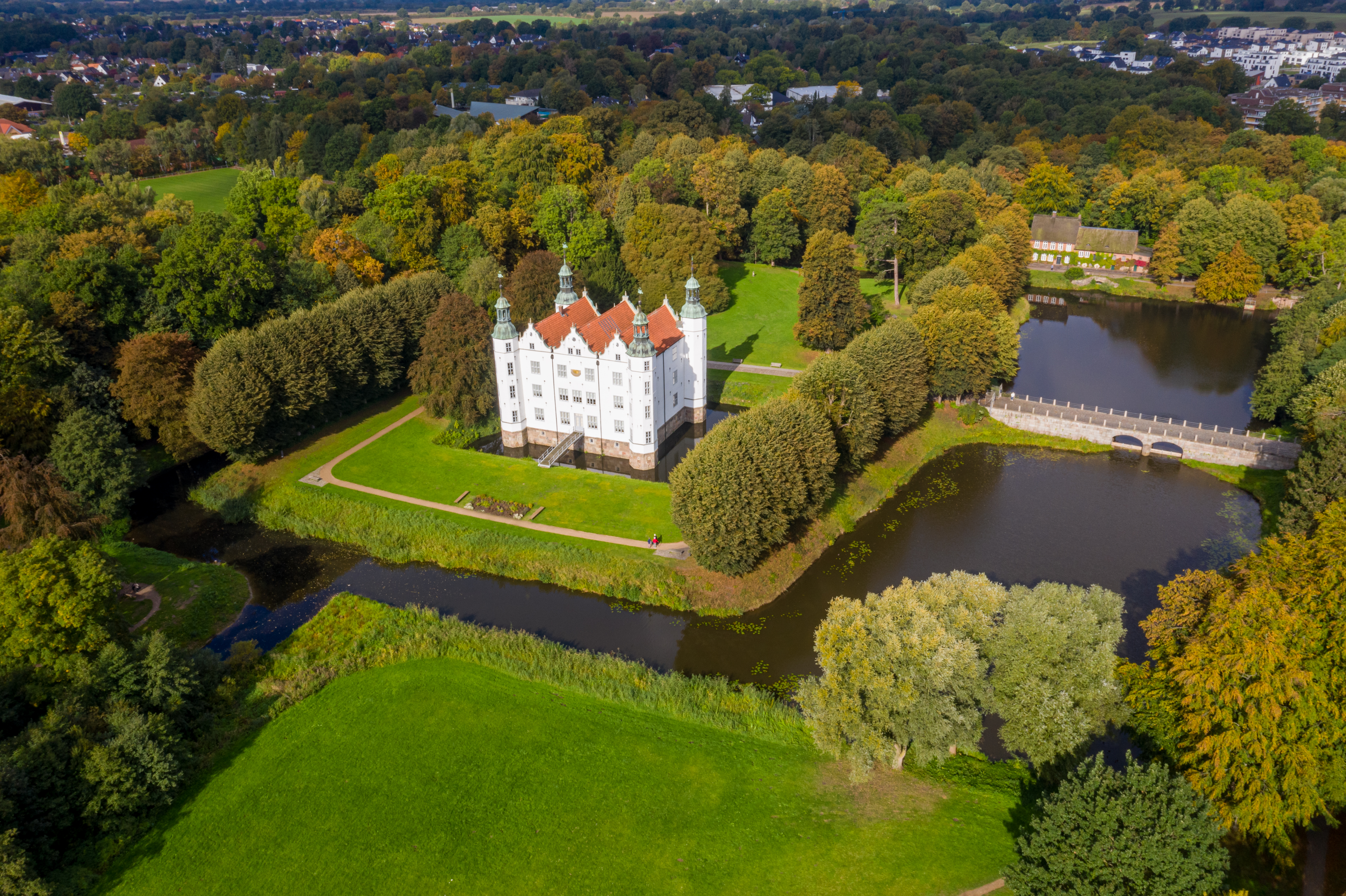 Ahrensburg Castle